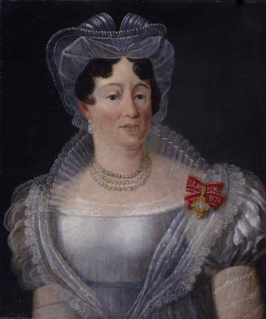 Countess Yelizaveta Fyodorovna Musina-Pushkina